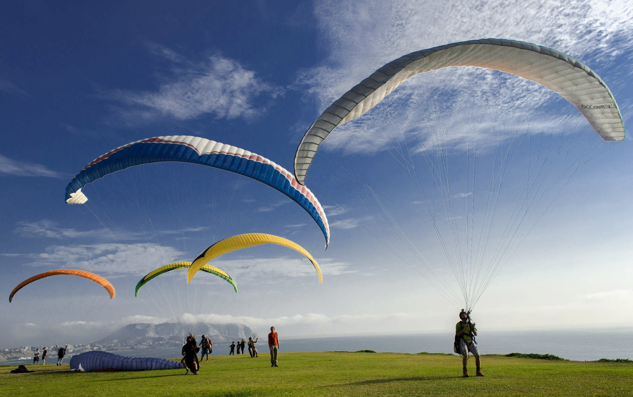 Vuelos en Parapente